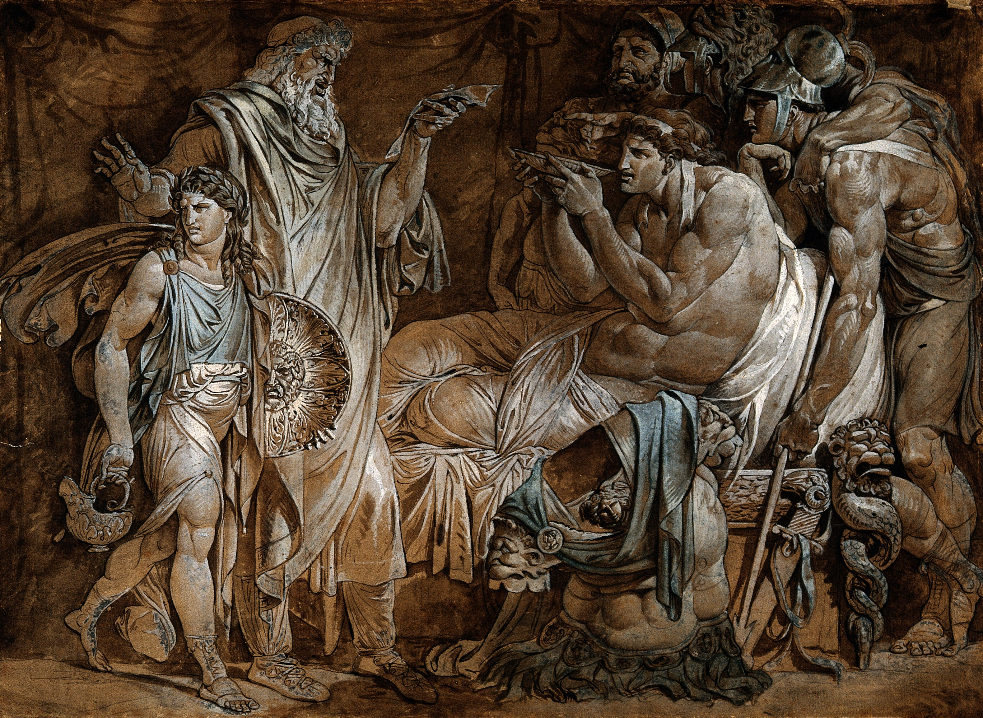 Alexander the Great demonstrating his trust in Philip, his physician, by drinking a medicinal draught prepared by him after receiving a letter from General Parmenio suggesting that Philip is poisoning him. Pen drawing attributed to an artist in the circle of G. Cades. Iconographic Collections Keywords: Philip of Acarnania; Poisons; POISON; Giuseppe Cades; alexander the great; Alexander the Great